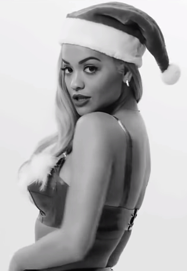 Rita Ora in 'LOVE' Magazine Advent Calendar 2015